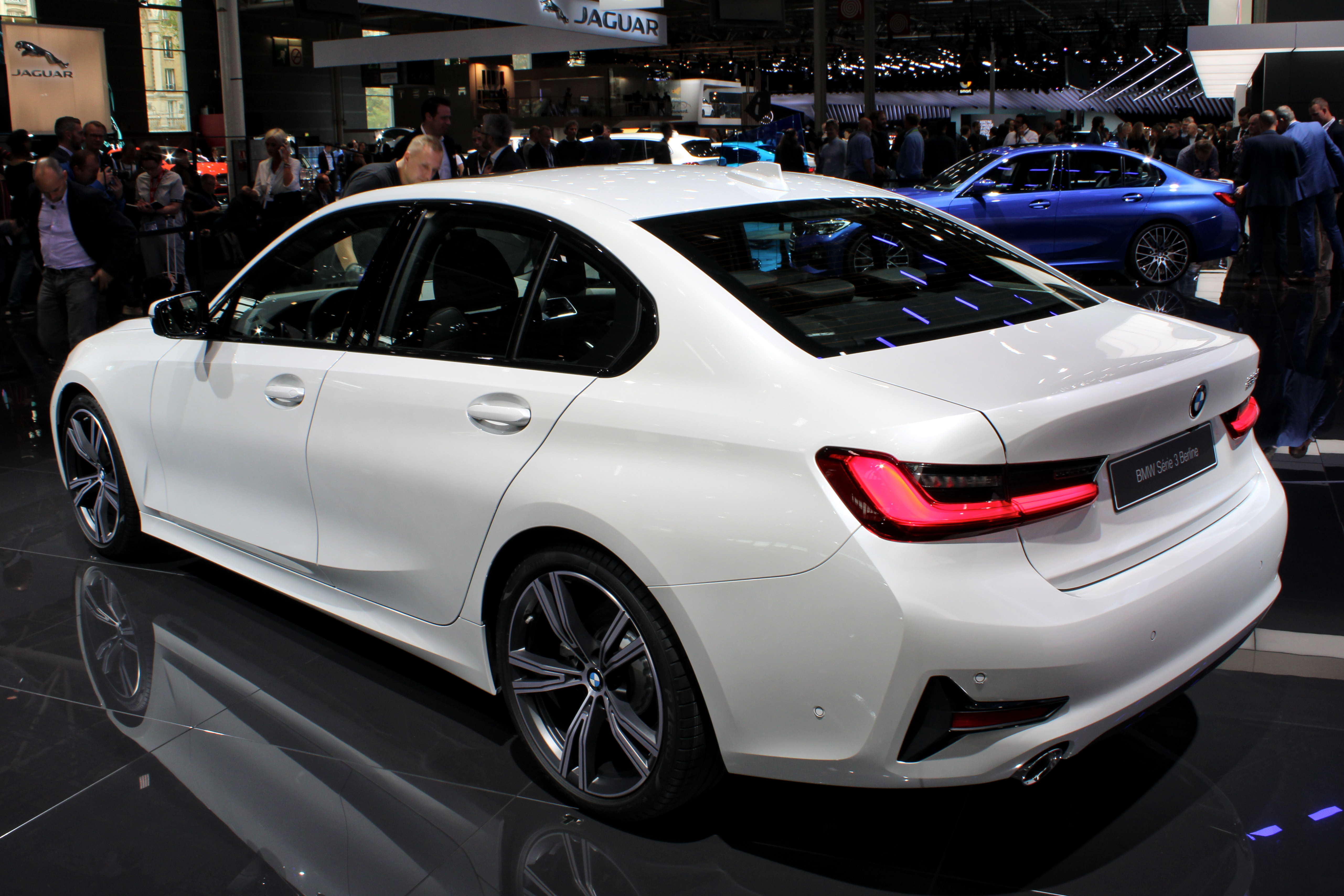 BMW G20 at Paris Motor Show 2018